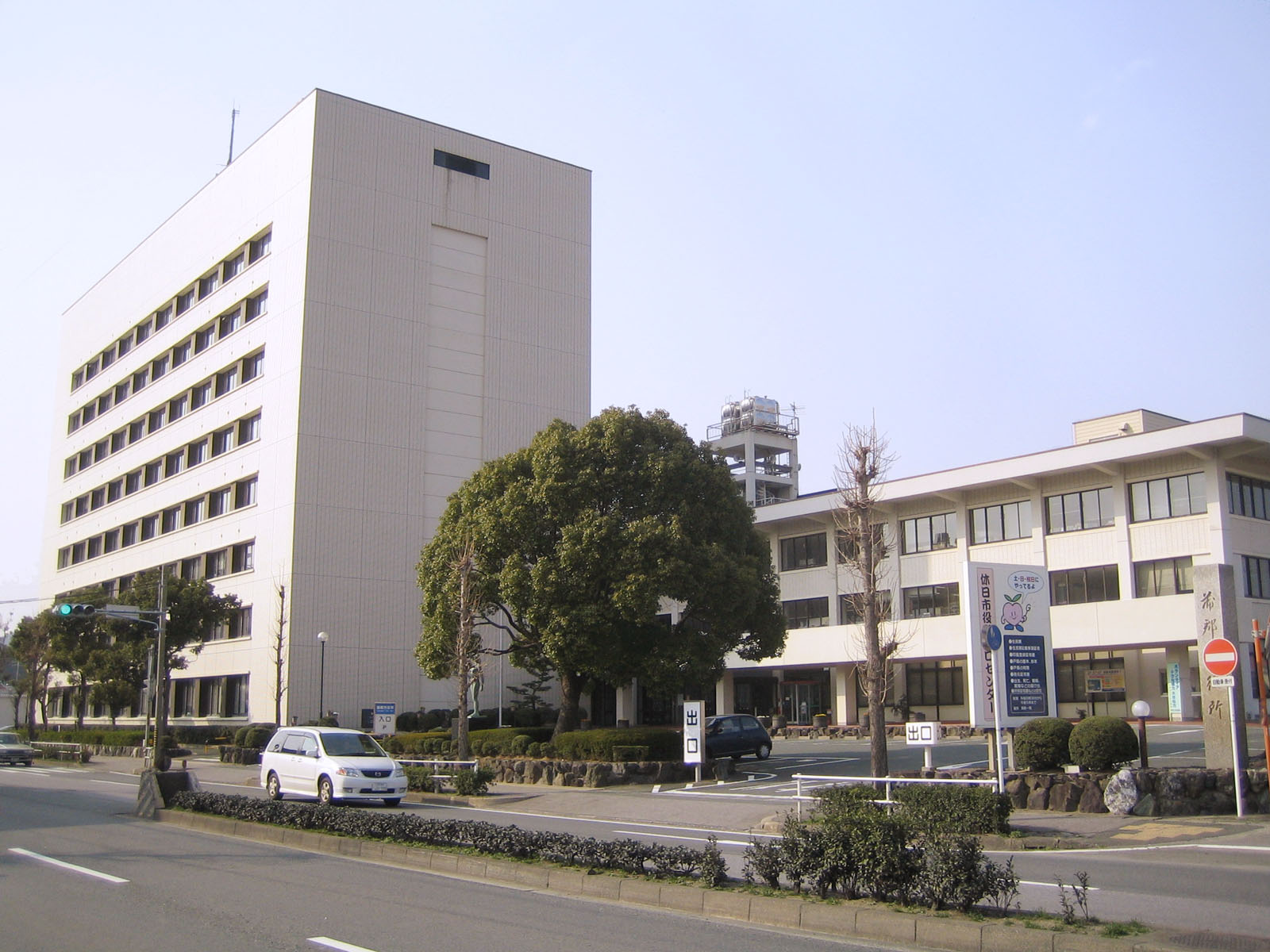 Gamagori City Office (蒲郡市役所), in Gamagori, Aichi, Japan